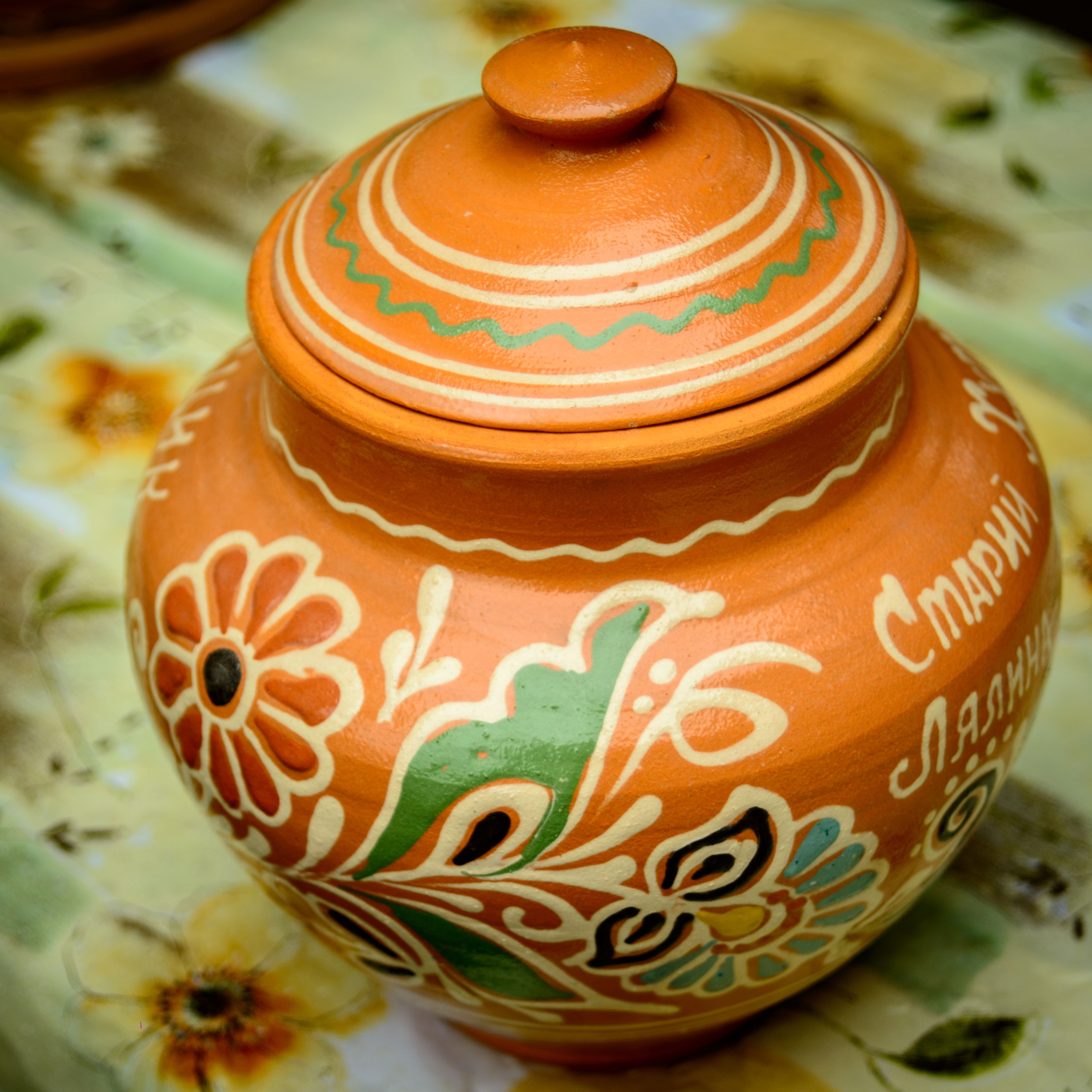 Pot. Wikiexpedition to Fest "Borschyk in clay pot". Poltava region